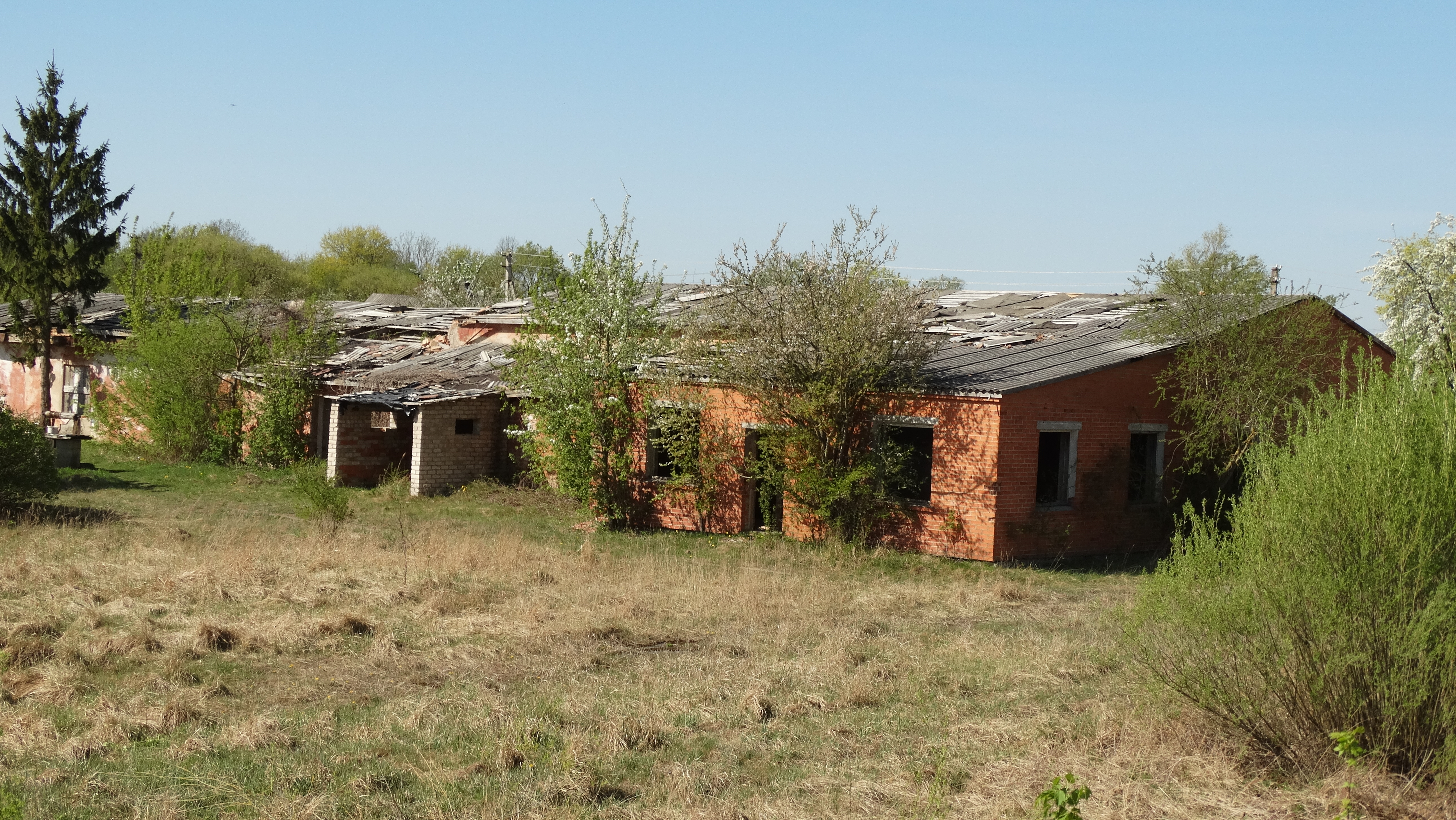 Pamuckai, Pakruojis district, Lithuania